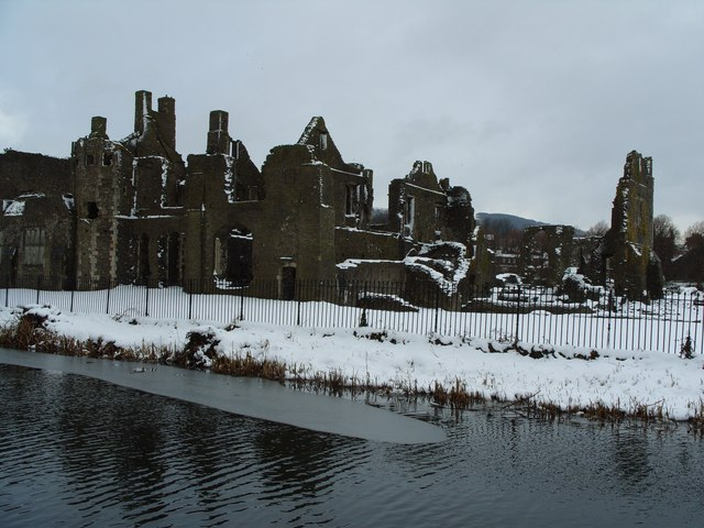 Neath Abbey in snow